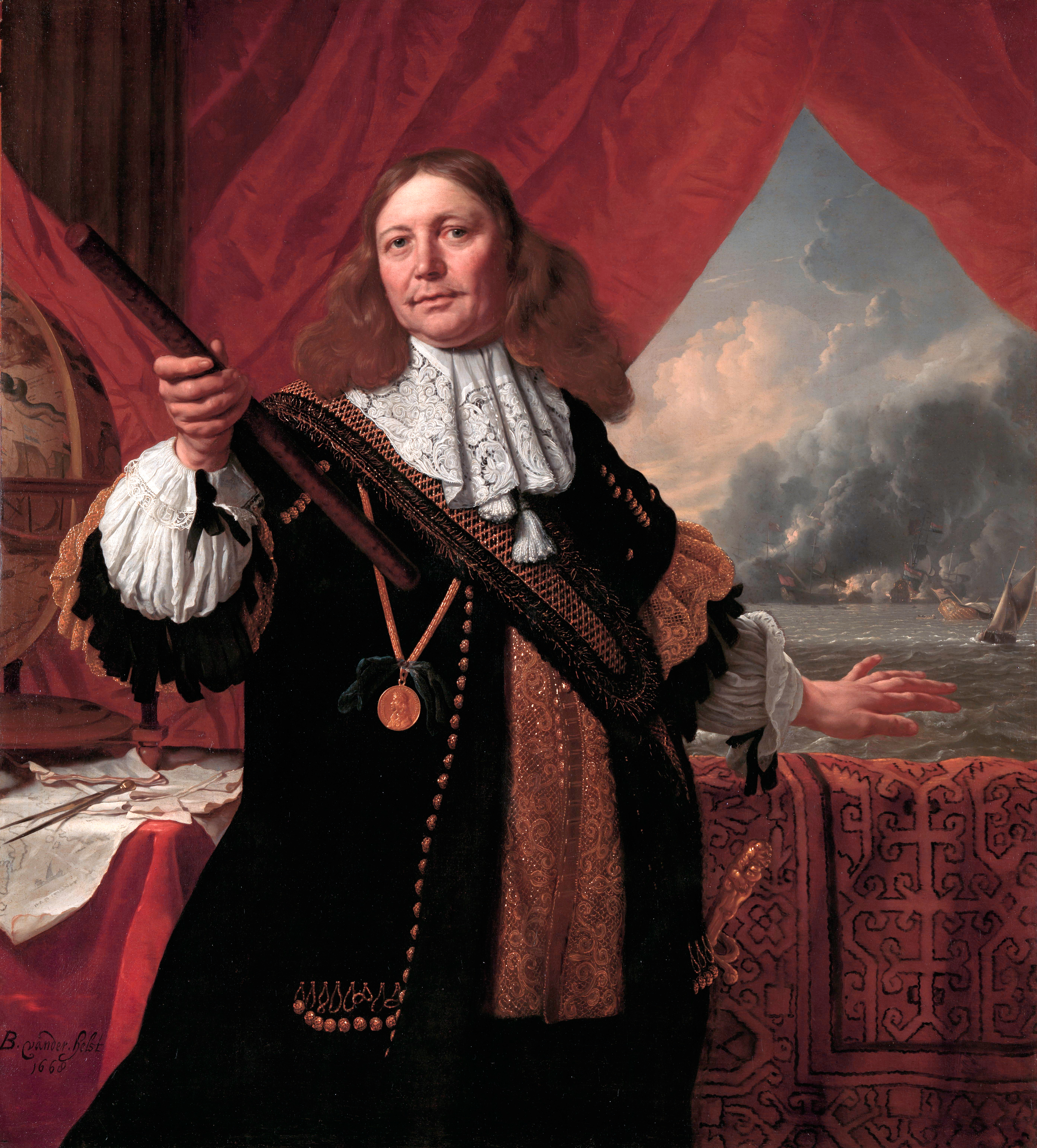 Vice-Admiral Johan de Liefde oil on canvas 139 × 122 cm signed b.l: B. vander helst / 1668